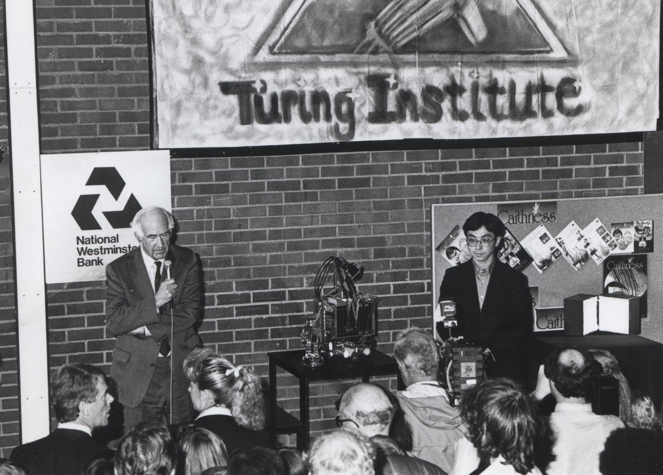 Lord Balfour of Burleigh announes Champion at the First Robot Olympics in Glasgow